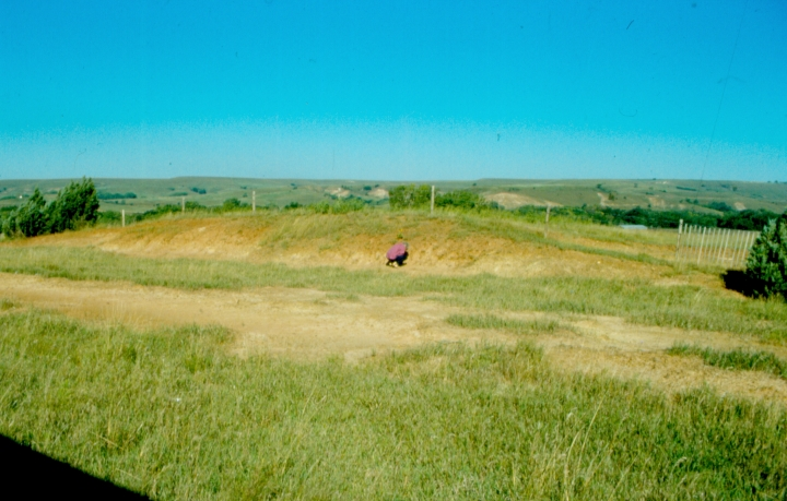 Terra Cotta Member of the Dakota Formation in central Kansas. A few dinosaurs have been found in this member, including the nodosaurid Silvisaurus condrayi.